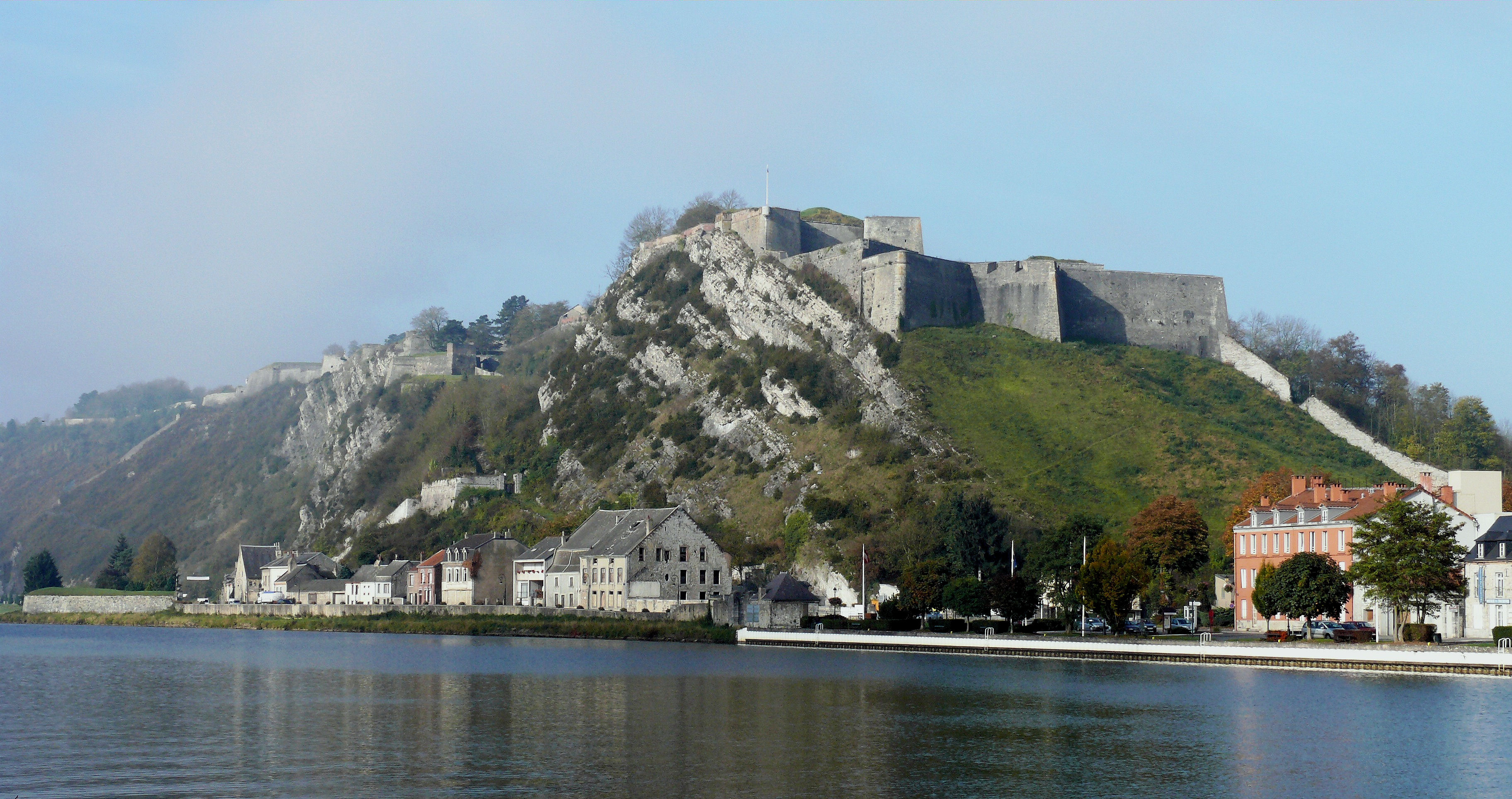 Givet (France - Ardennes department) — View of the fortress Charlemont.